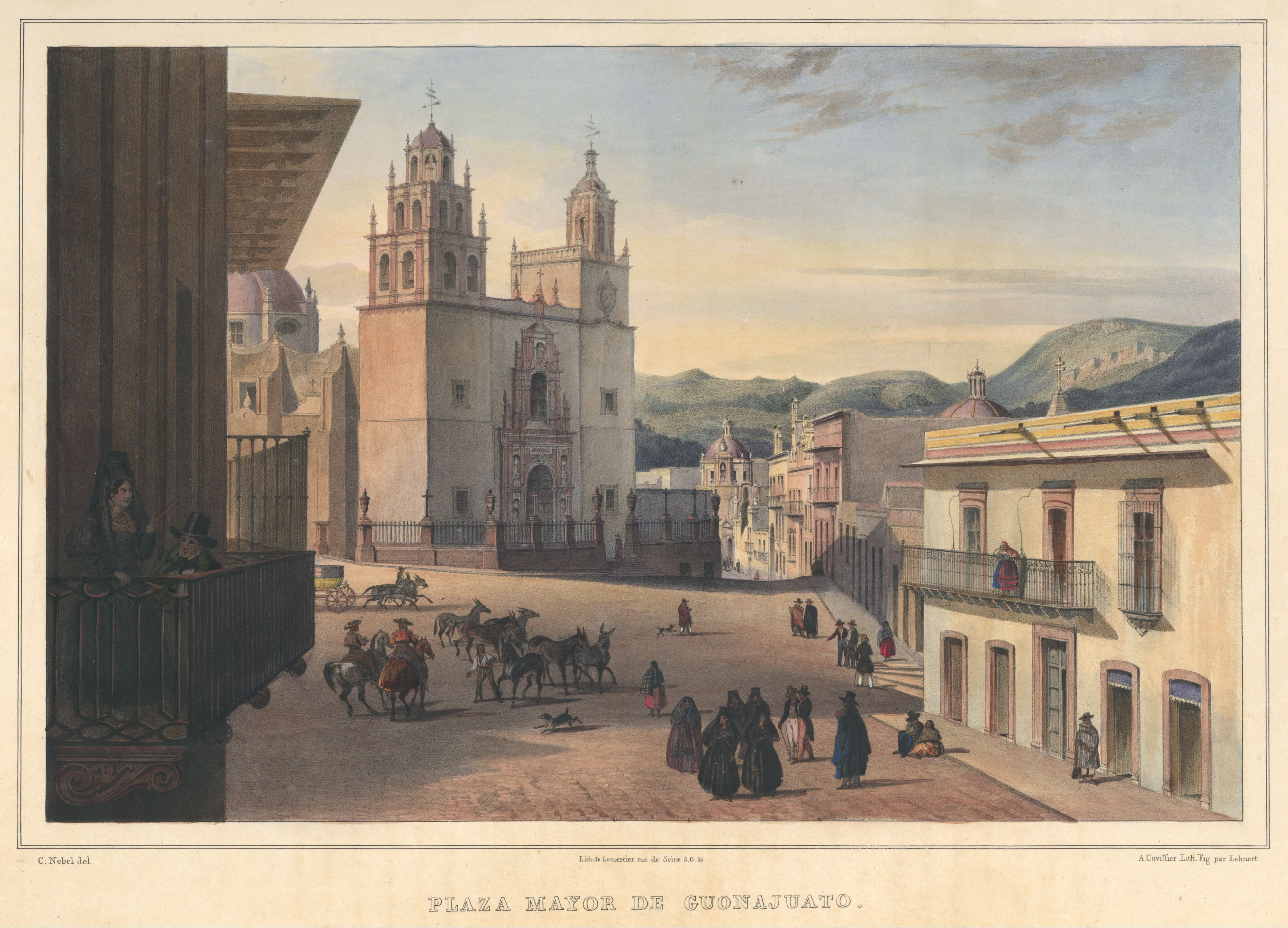 Plaza Mayor de Guanajuato, view of the main square of Guanajuato, Guanajuato. Hand-colored lithograph highlighted with gum arabic. Original size (neat lines): 34×22.5 cm.